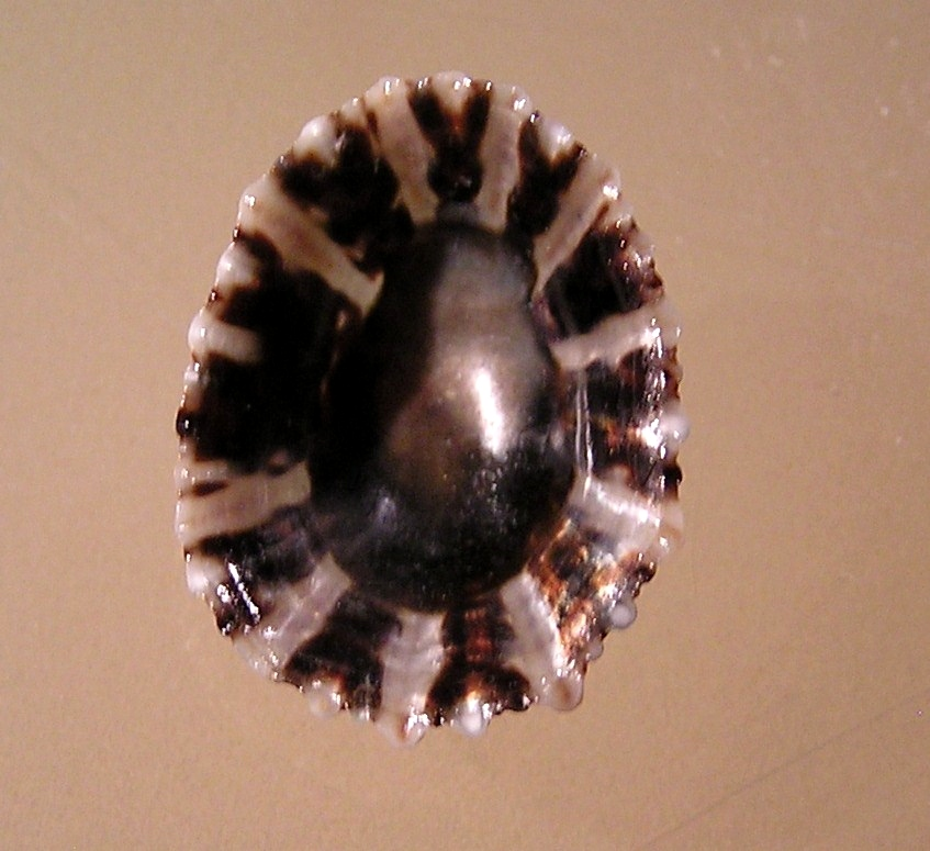 Cellana ornata (Dillwyn, 1817), a limpet from the family Nacellidae; New Zealand